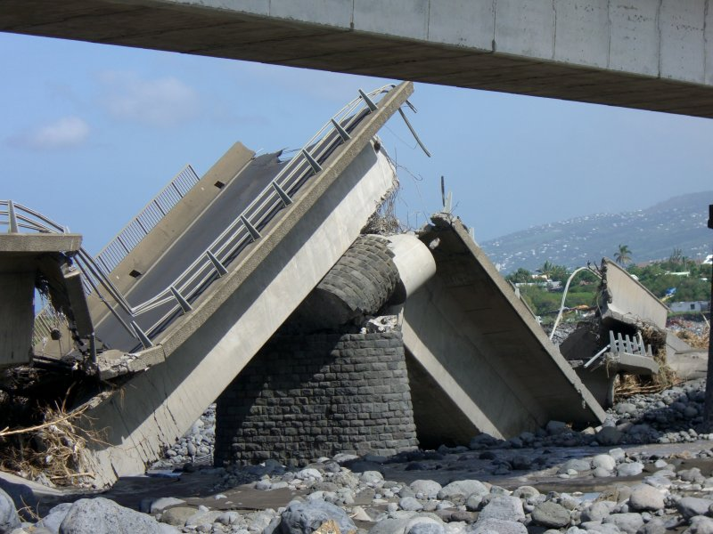 The broken bridge on the Saint-Étienne river after Gamède (force 3 cyclone).